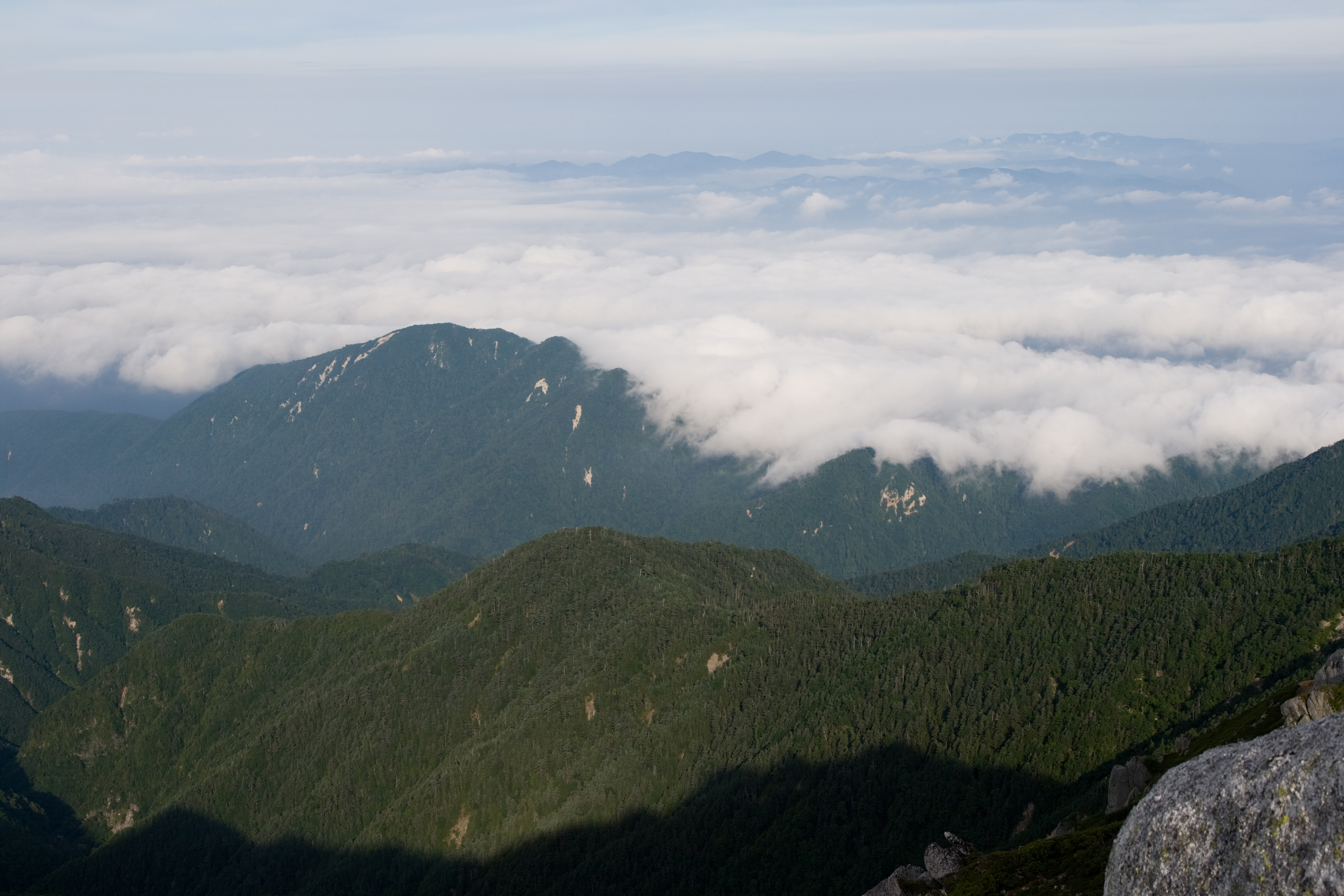 Mt.Itose (Itose-yama), as seen from Mt.Utsugidake, Nagano, Japan.